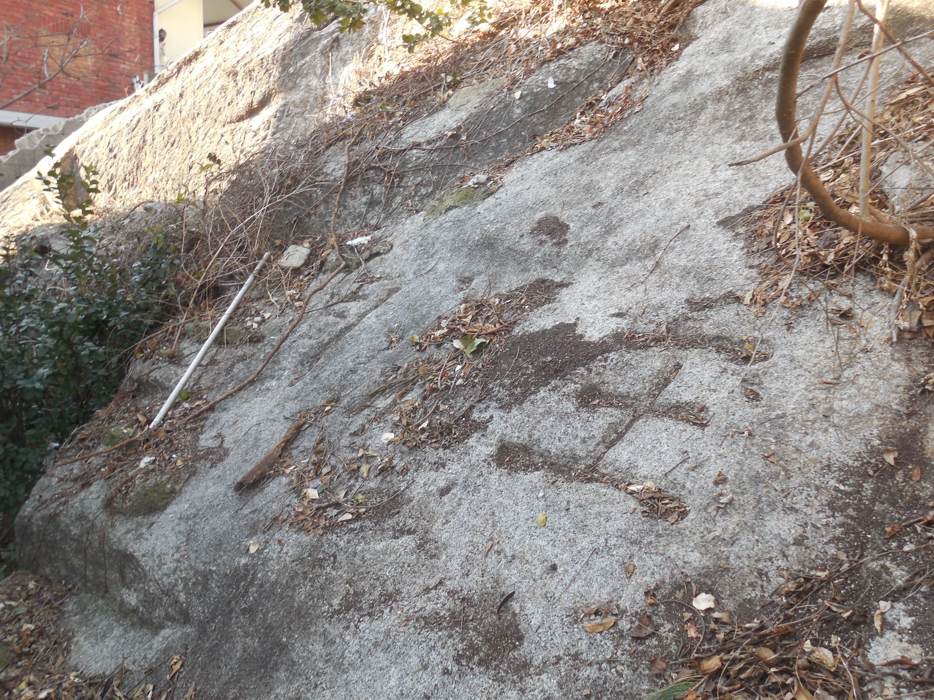 The letter "Ongnyudong" on the rock at Ogin-dong, Jongno-gu, Seoul.